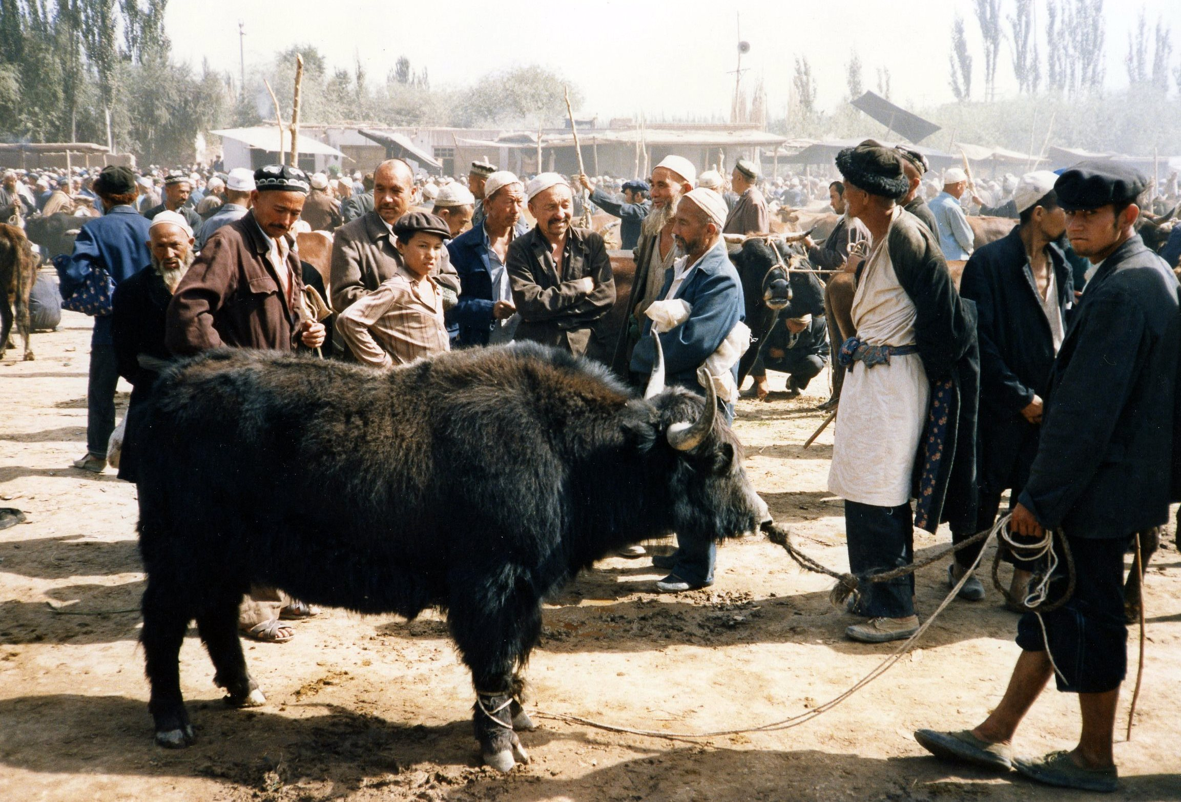 Yak at the Kashgar market, Xinjiang, China